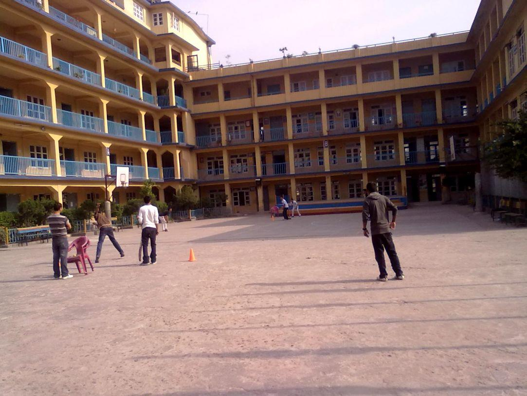 Photo shows students playing at EPS ground.